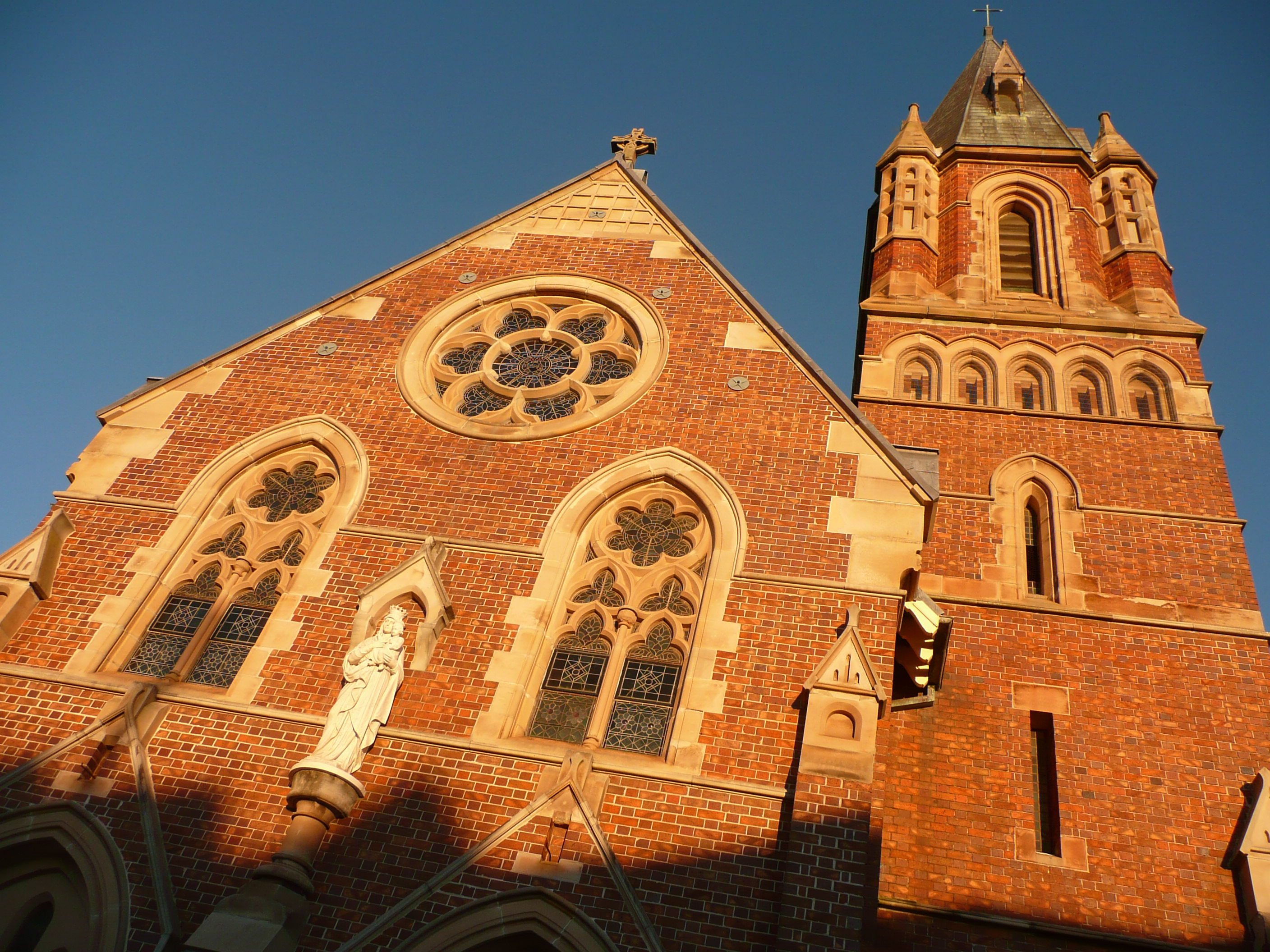 catholic church, sydney